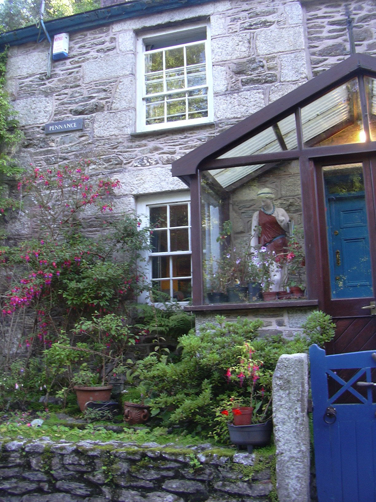 House in Port Navas, Kerrier, Cornwall with two ship's figureheads